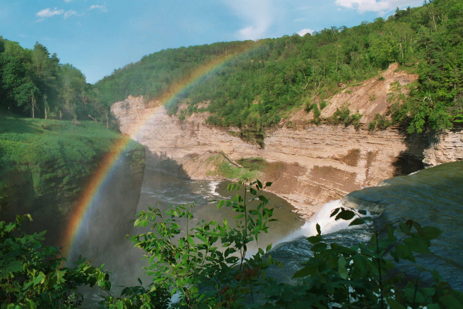 Letchwork State Park, New York Middle Falls of the Genesee river